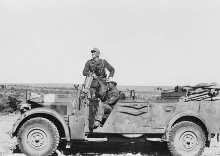 German Oberstleutnant Werner Hundt, one of General Erwin Rommel's staff officers standing in the front seat of a motor vehicle (Kfz 12). Note his personalised staff pennant at the front of the car. Hundt went on to command the 2nd Panzer Division.